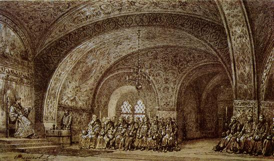 Shishkov design for Palace of Facets scene in Boris Godunov (1874)